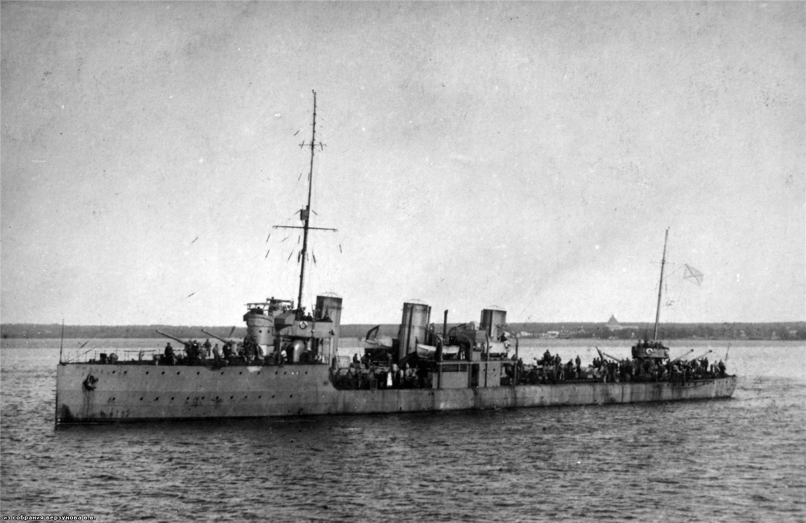 The Russian squadron torpedo boat (destroyer) Avtroil.